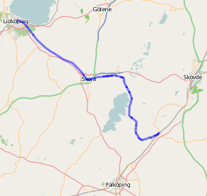 Map of old railway line Lidköping-Skara-Stenstorp